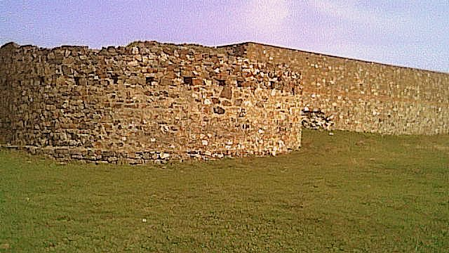 Late Antique corner tower on the west wall of the fort on Dinogetia in Lower Moesia's Danube limes, southeast of the city of Galati, probably dating of Diocletian. The wall remains were excavated in 1939 by the archaeological investigation partly preserved in a section also restored and partly reconstructed.